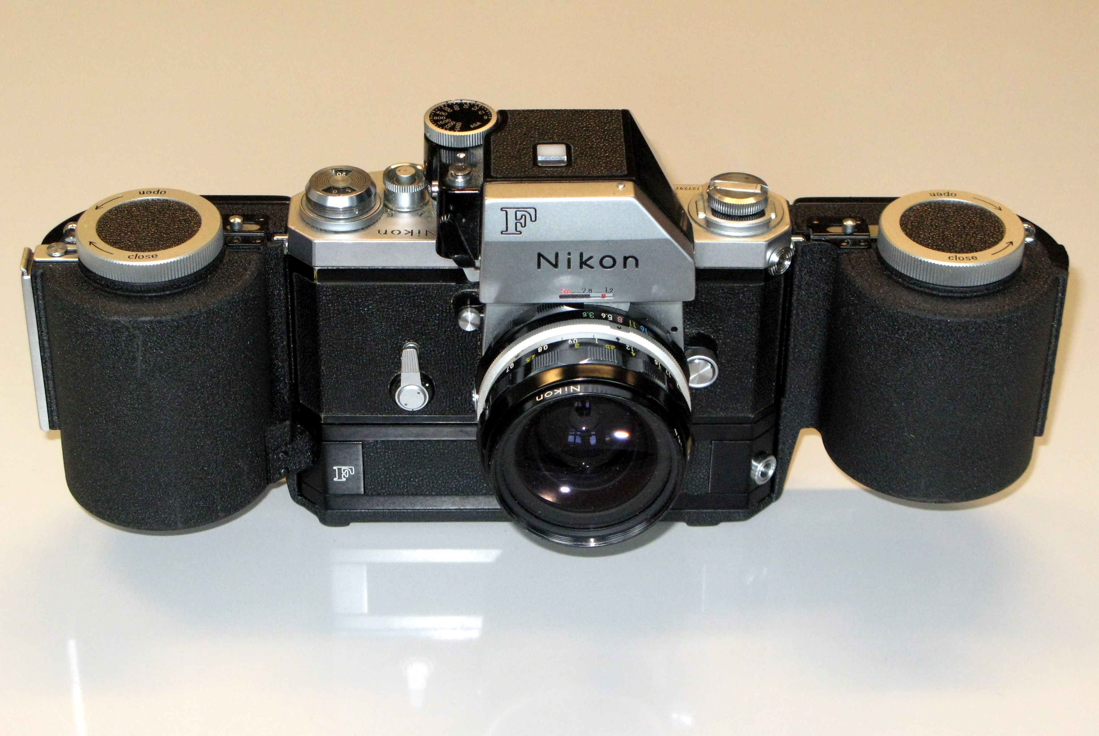 Nikon F with high capacity loader